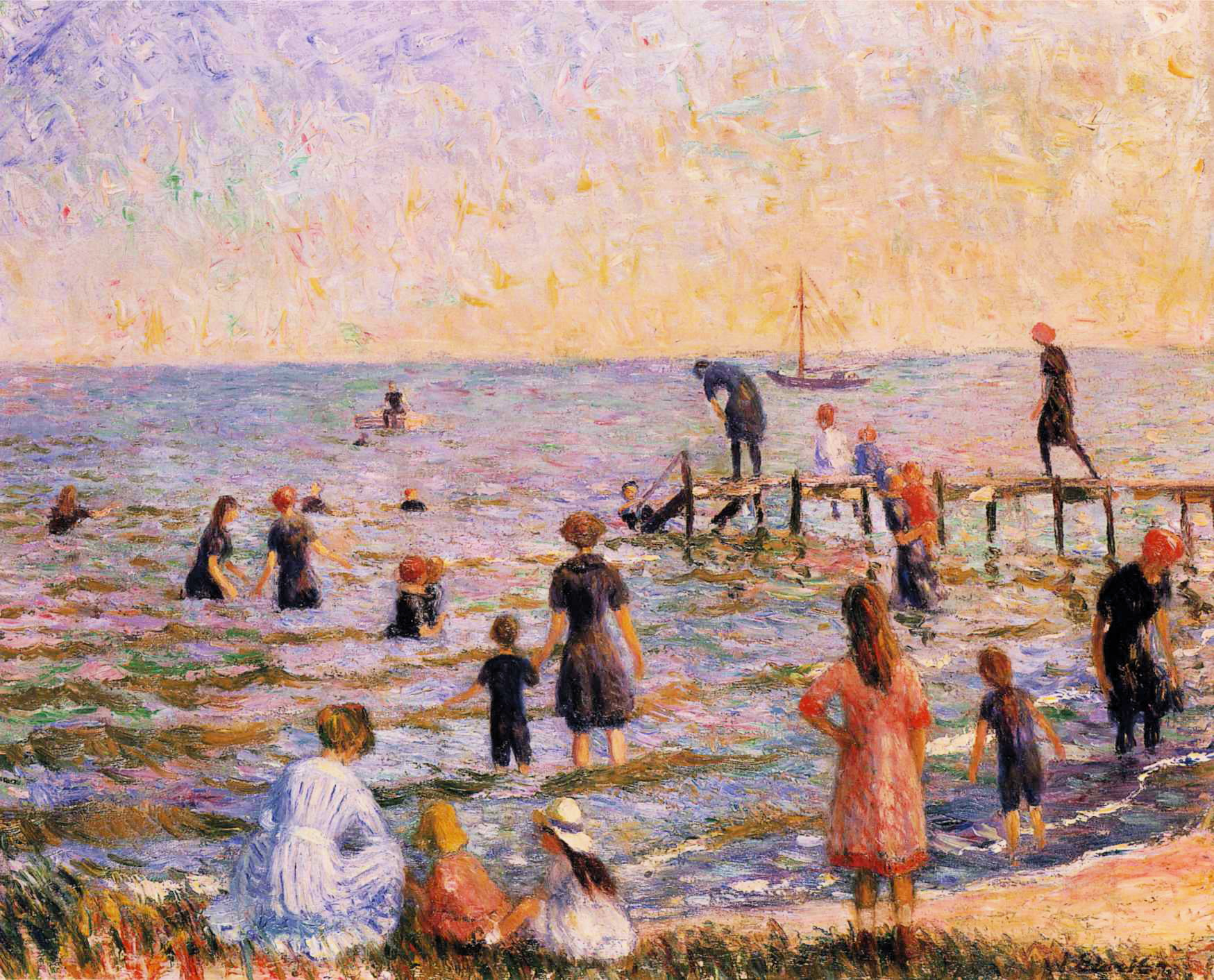 Dimensions and material of painting: Oil on canvas, 26-1/16 x 32 in; Location: Brooklyn Museum